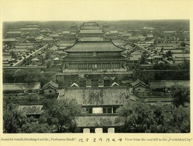 old photo from China 1900-1903, see the file's name for detail.